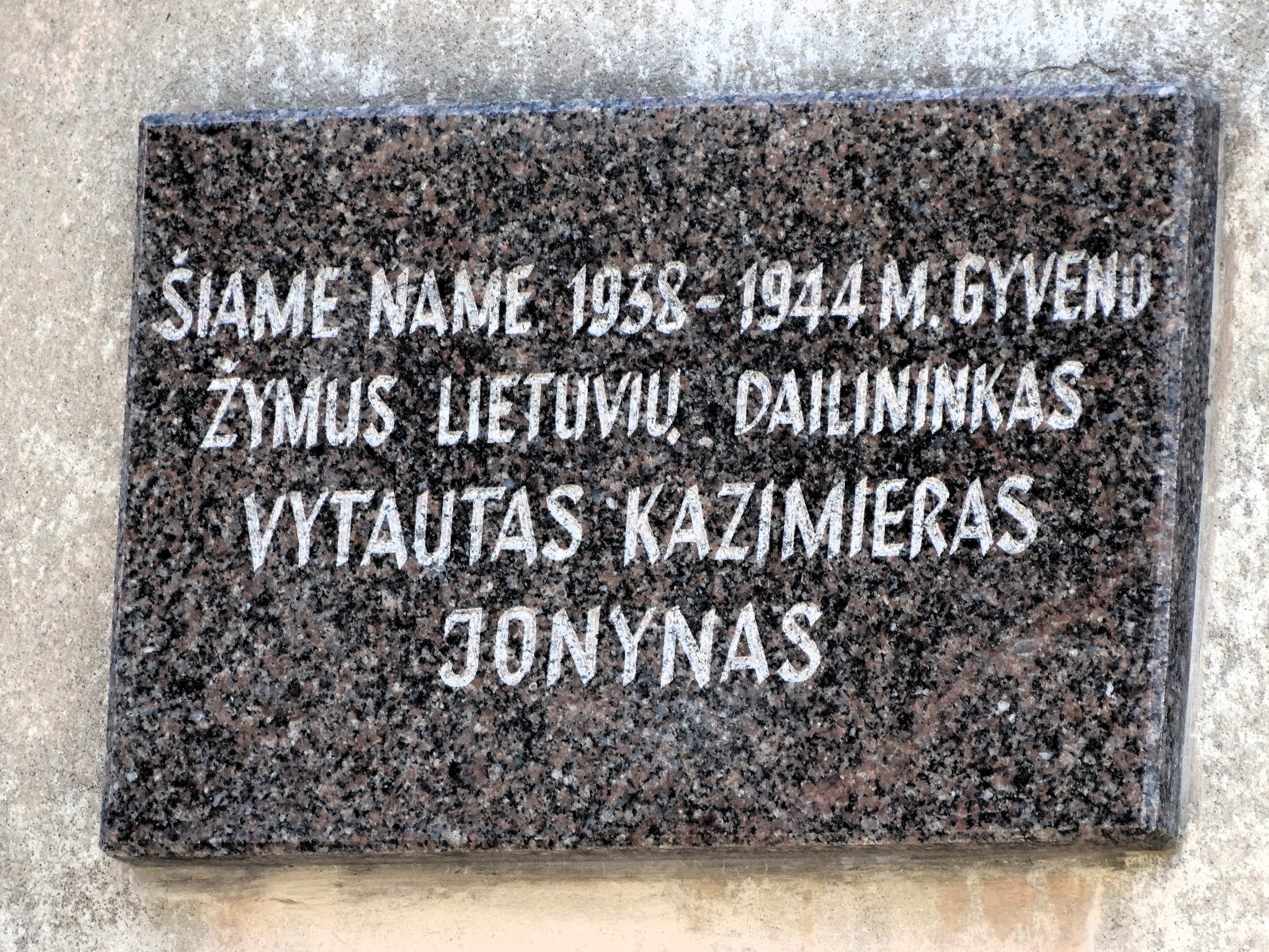 Plaque to Vytautas Kazimieras Jonynas, Kaunas, Lithuania